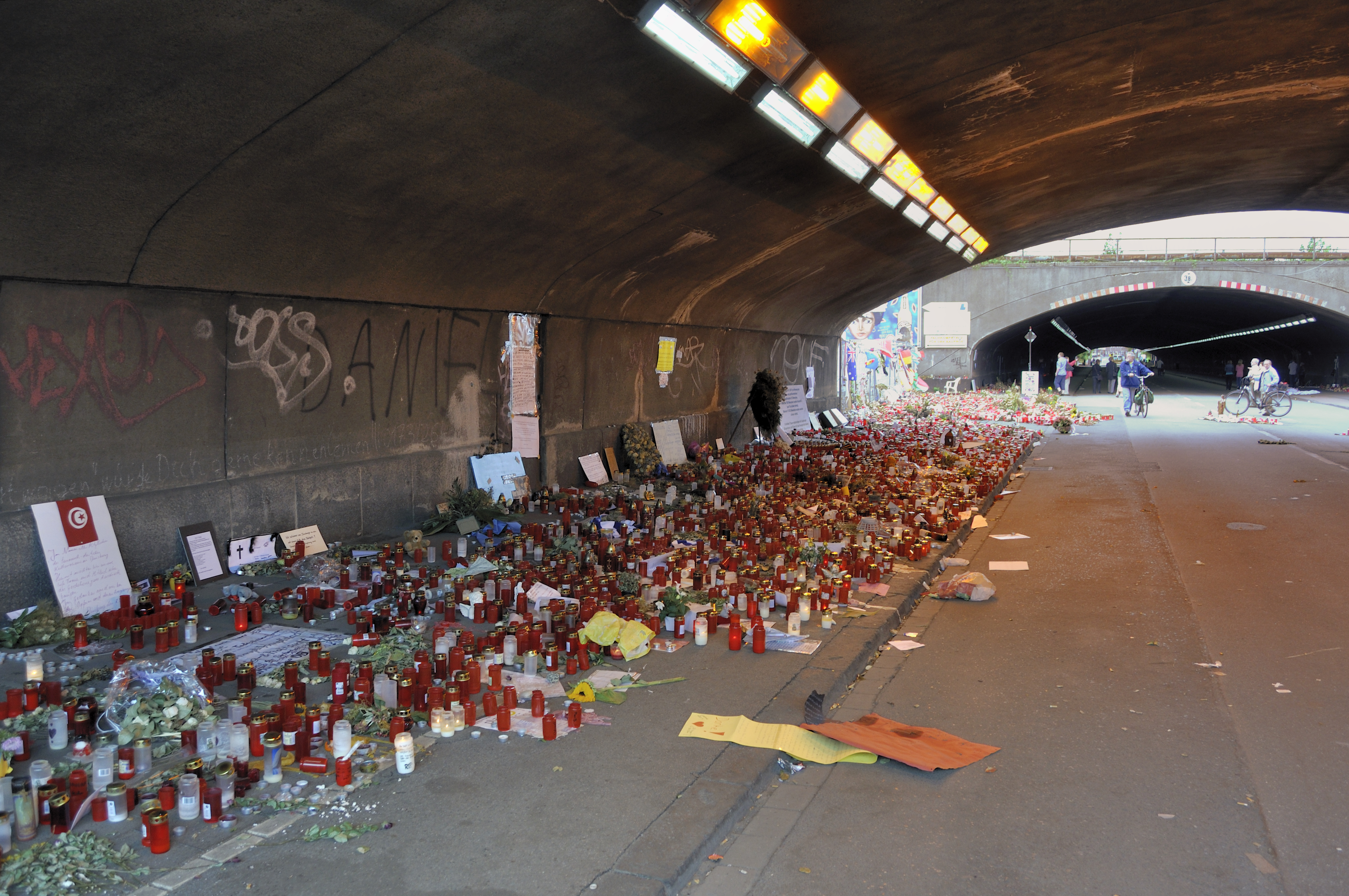 Picture taken in Duisburg after summer meetup.